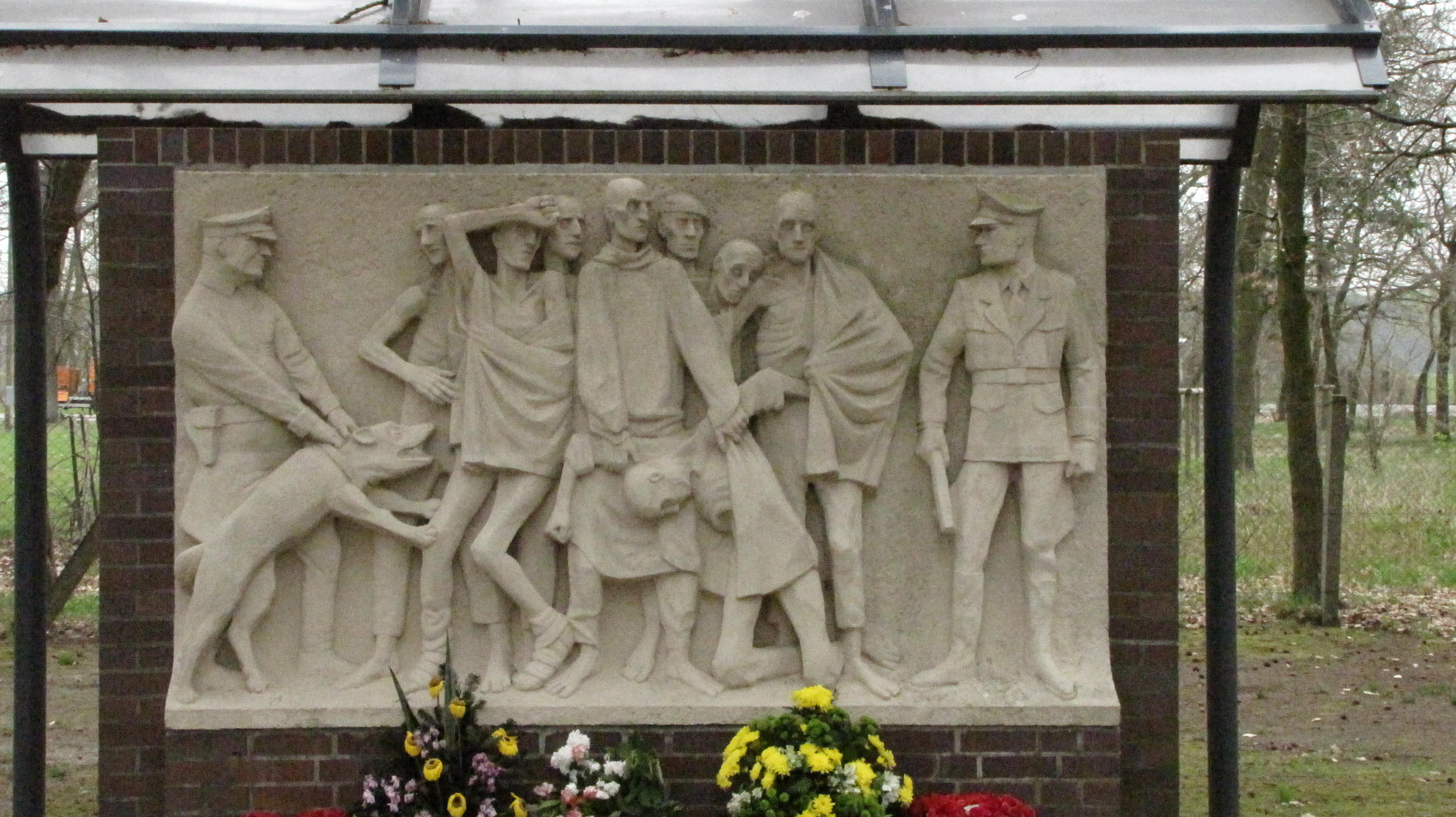 Gedenkstaette Woebbelin